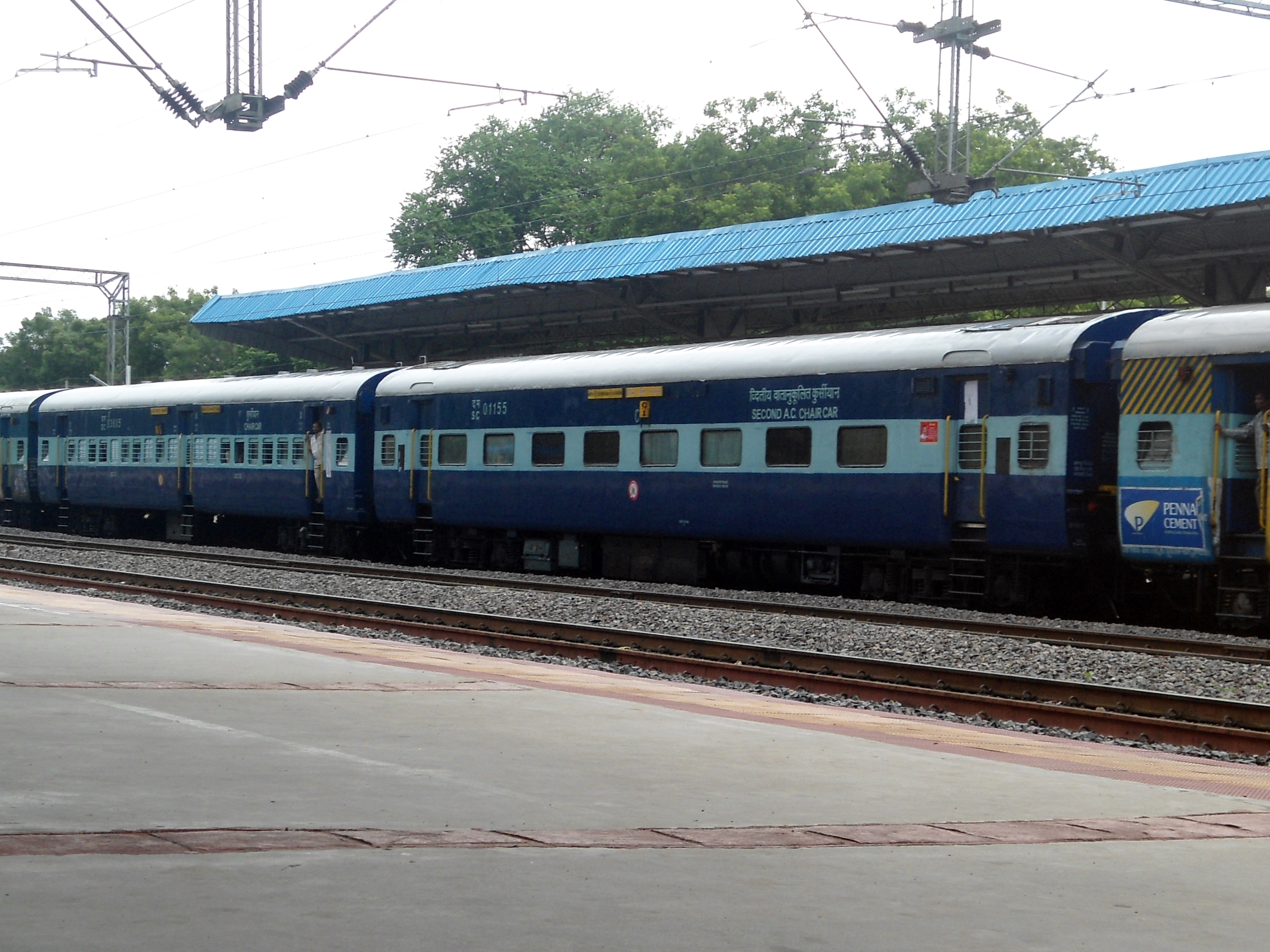 17202 Guntur bound Golconda Express at Aler Railway station, Nalgonda district